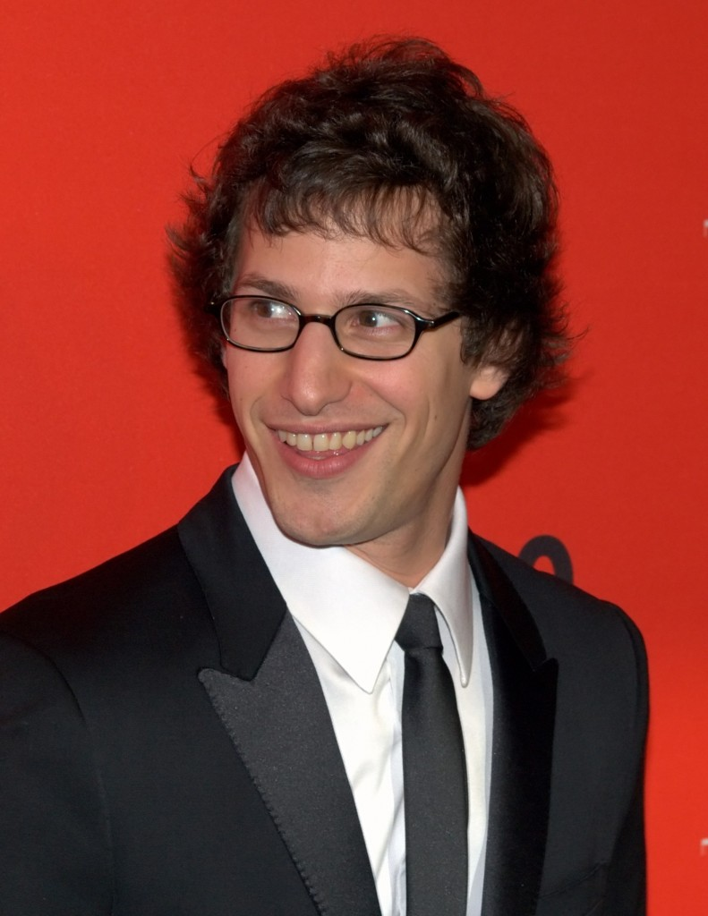 Photo of comedian/actor Andy Samberg. Photo by David Shankbone. May only be used if the author is properly attributed.